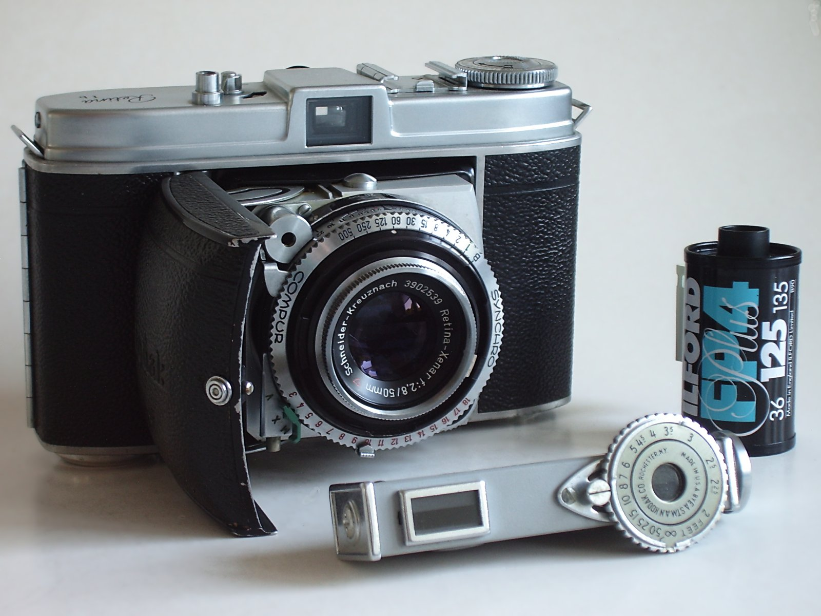 Kodak Retina 1b. Folding camera for 135 film. Made by Kodak in Germany.